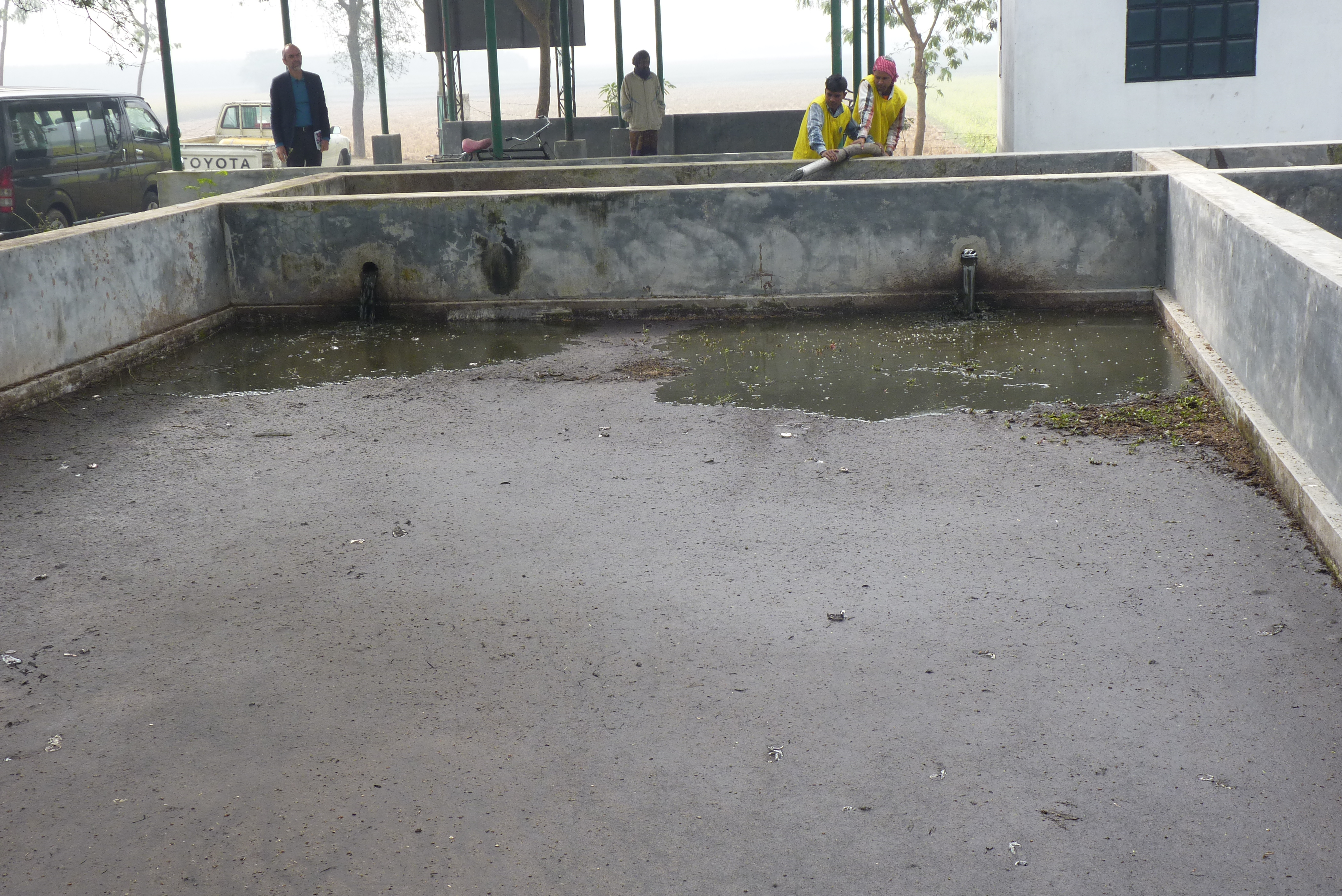 Sand drying bed Bangladesh